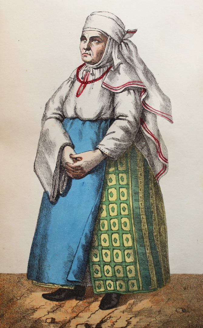 Ukrainian peasant lady